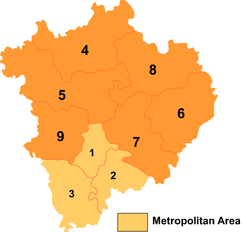 Map of Nanchong in Sichuan province